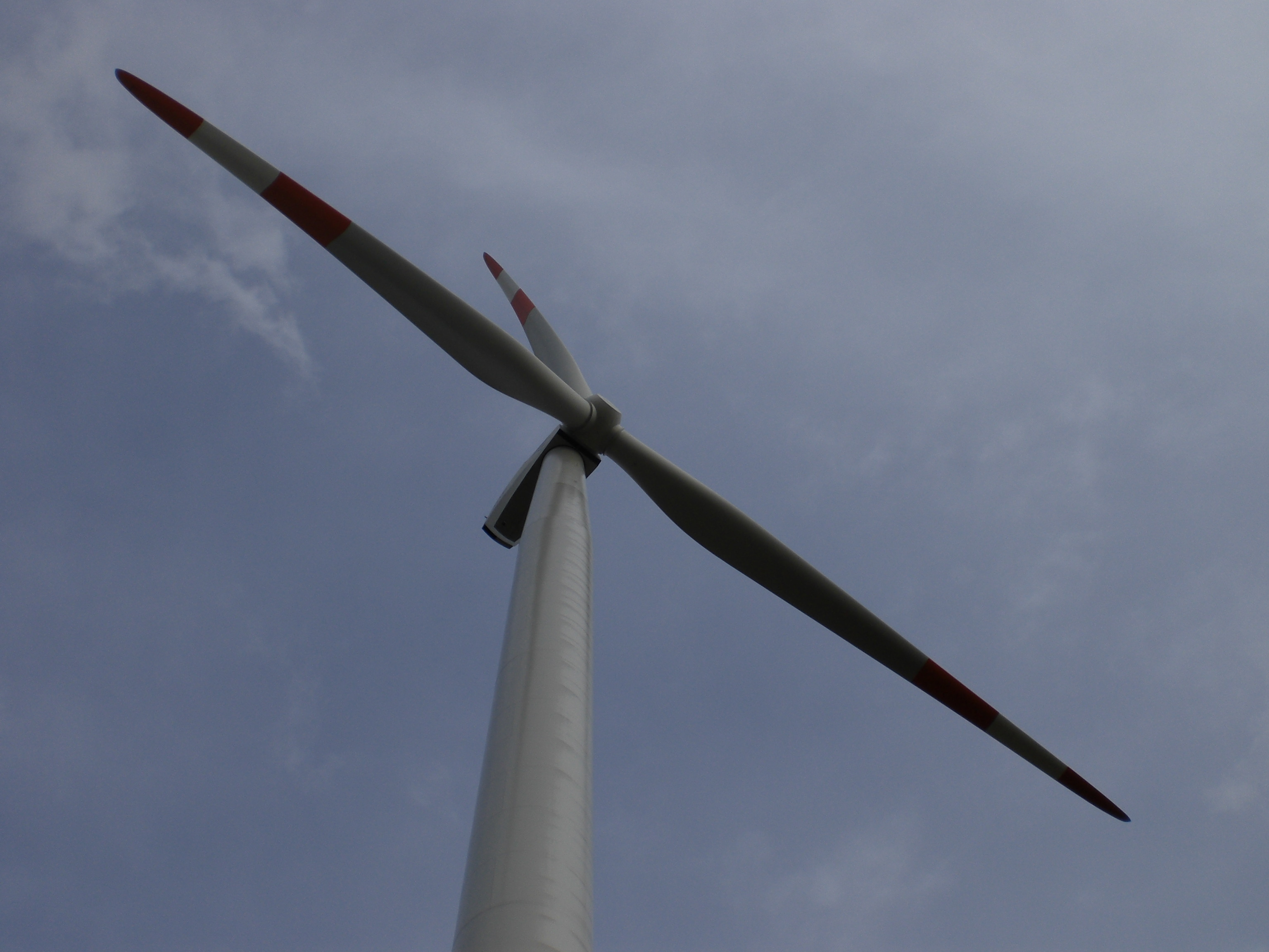 Windpark Waldhausen has 7 REpower wind turbines, model MM92, hub height 100m, rotor diameter 92m, nameplate capacity 2 MW for a total of 14 MW